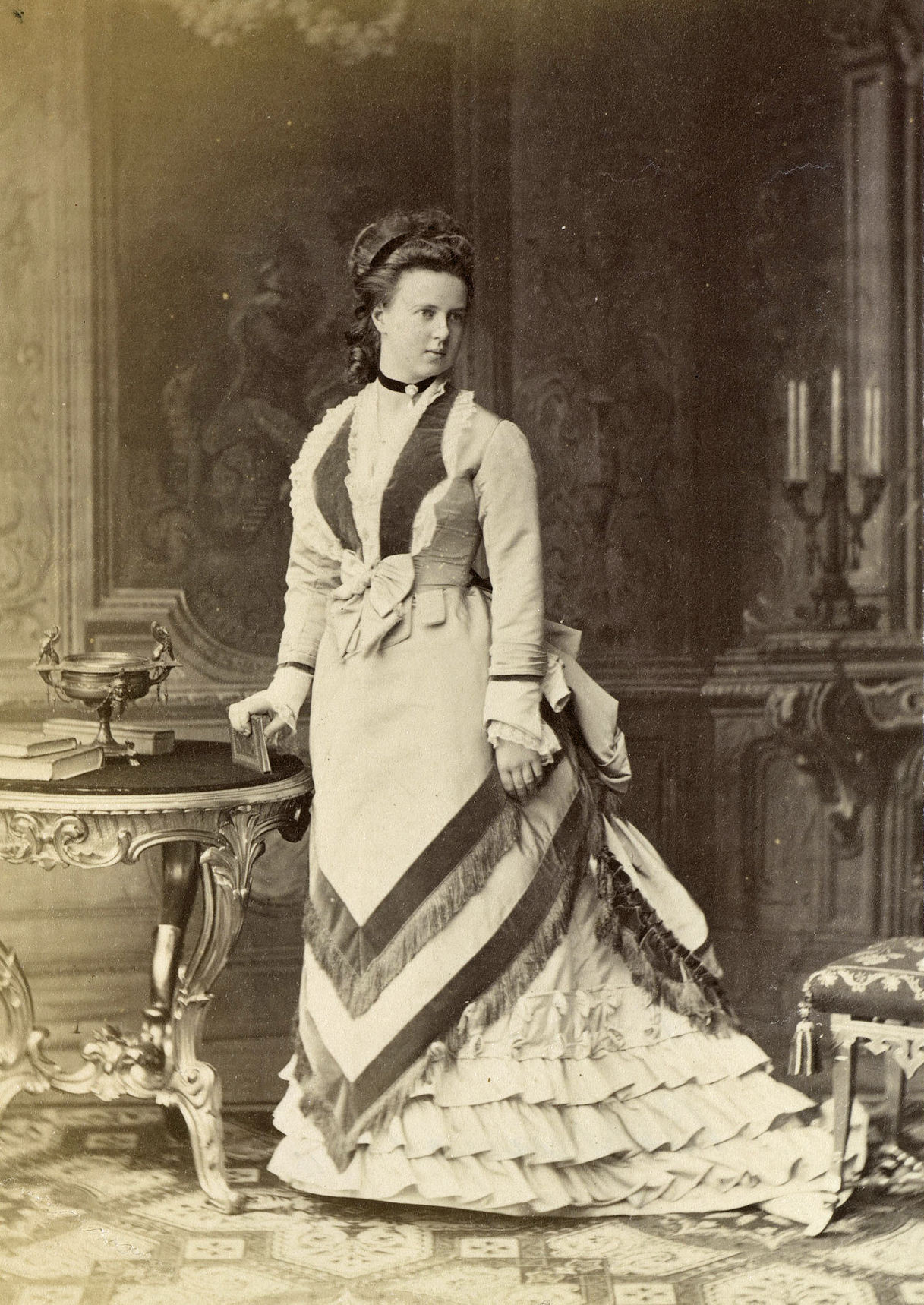 Grand Duchess Maria Alexandrovna of Russia